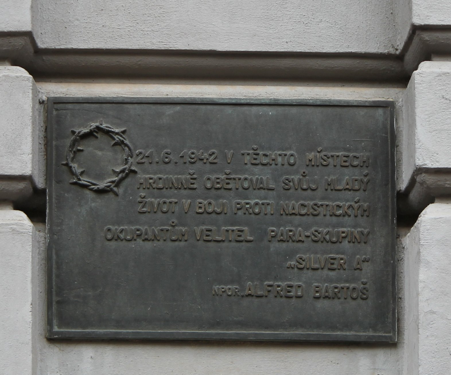 Pardubice, 405 Smilova street, memorial plaque for 2WW victim First lieutenant Alfréd Bartoš) Česky: Pardubice, Smilova ulice, č. p. 405, Pamětní deska npor. Alfréda Bartoše "21.6.1942 V TĚCHTO MÍSTECH HRDINNĚ OBĚTOVAL SVŮJ MLADÝ ŽIVOT V BOJI PROTI NACISTICKÝM OKUPANTŮM VELITEL PARA-SKUPINY "SILVER A" NPOR. ALFRED BARTOŠ